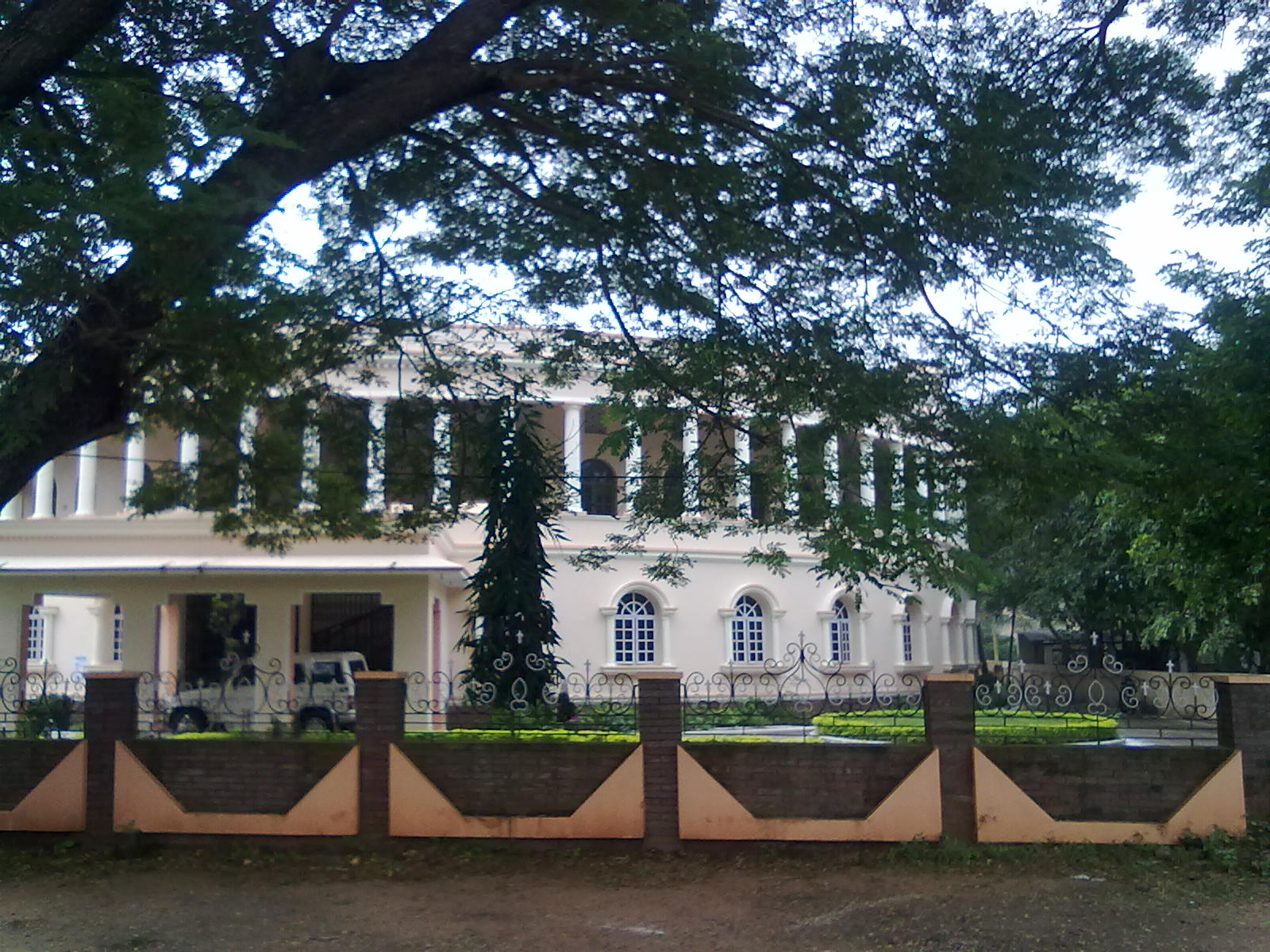 this is located at amalapuram,esat godavari,andhrapradesh